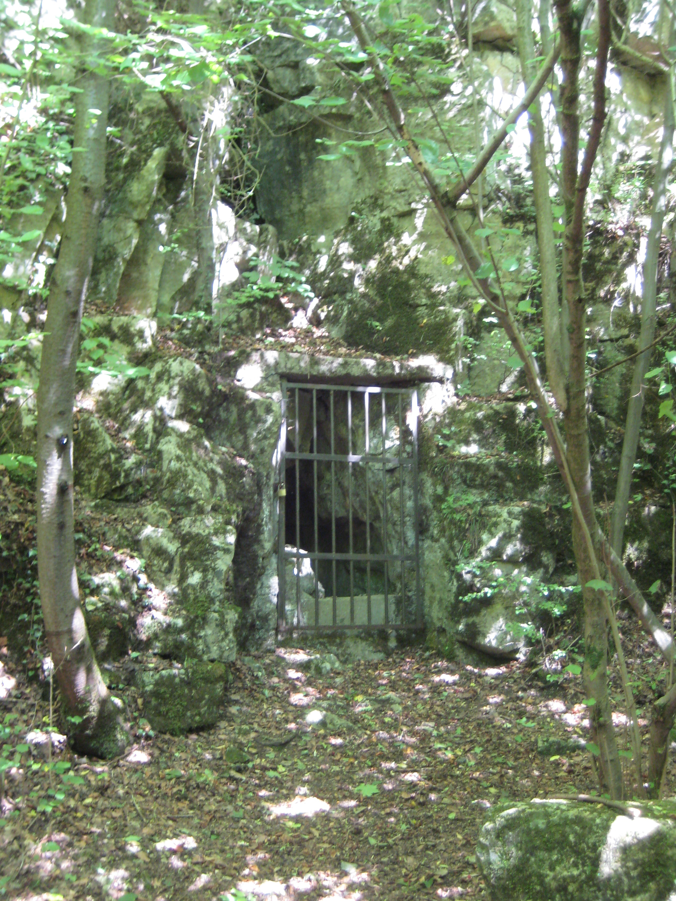 Description grotte diaclase Audun Tiche Date25 August 2011Sourcemon appareil photoAuthorAimelaimePermission (Reusing this file) grotte diaclase Audun Tiche